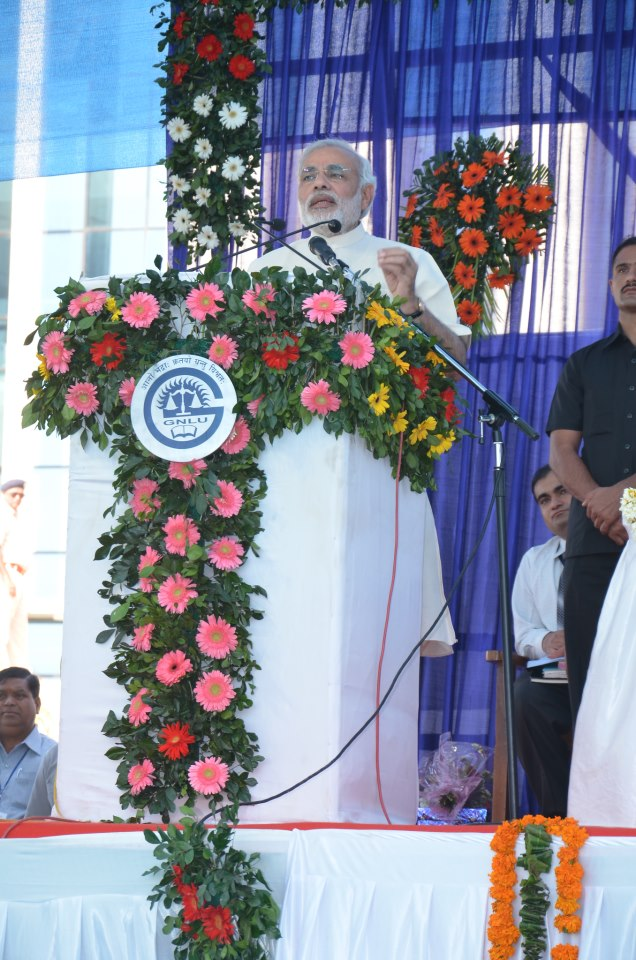 Modi at GNLU